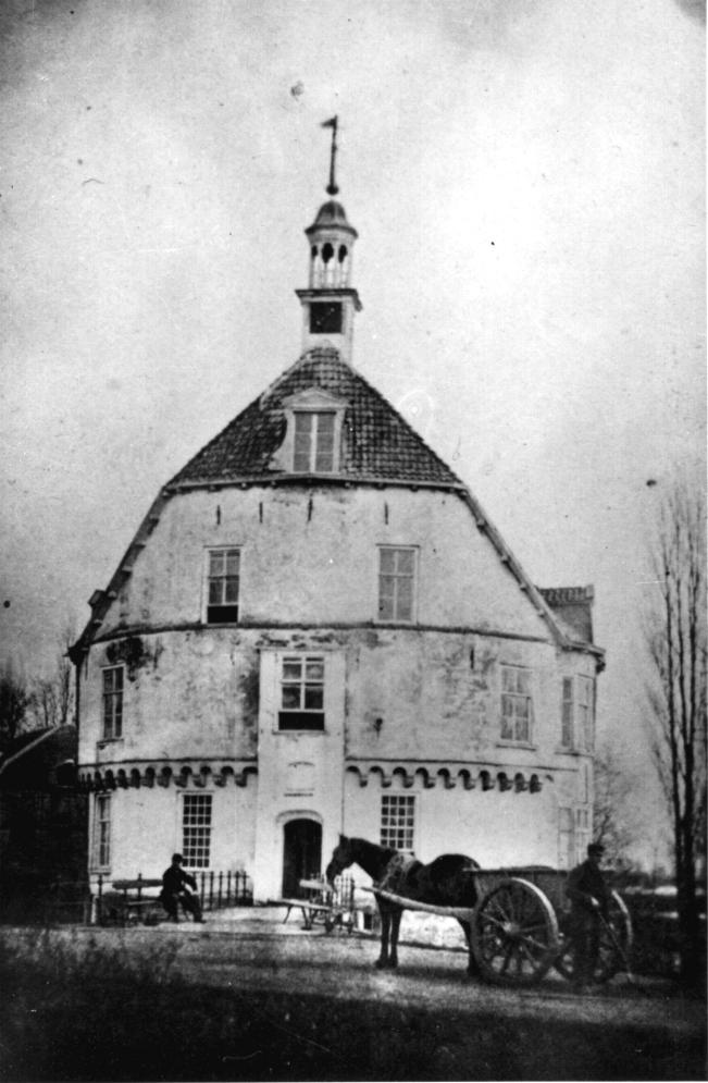 Kasteel De Gelderse Toren (probably front of Geldersche Toren before 1868)